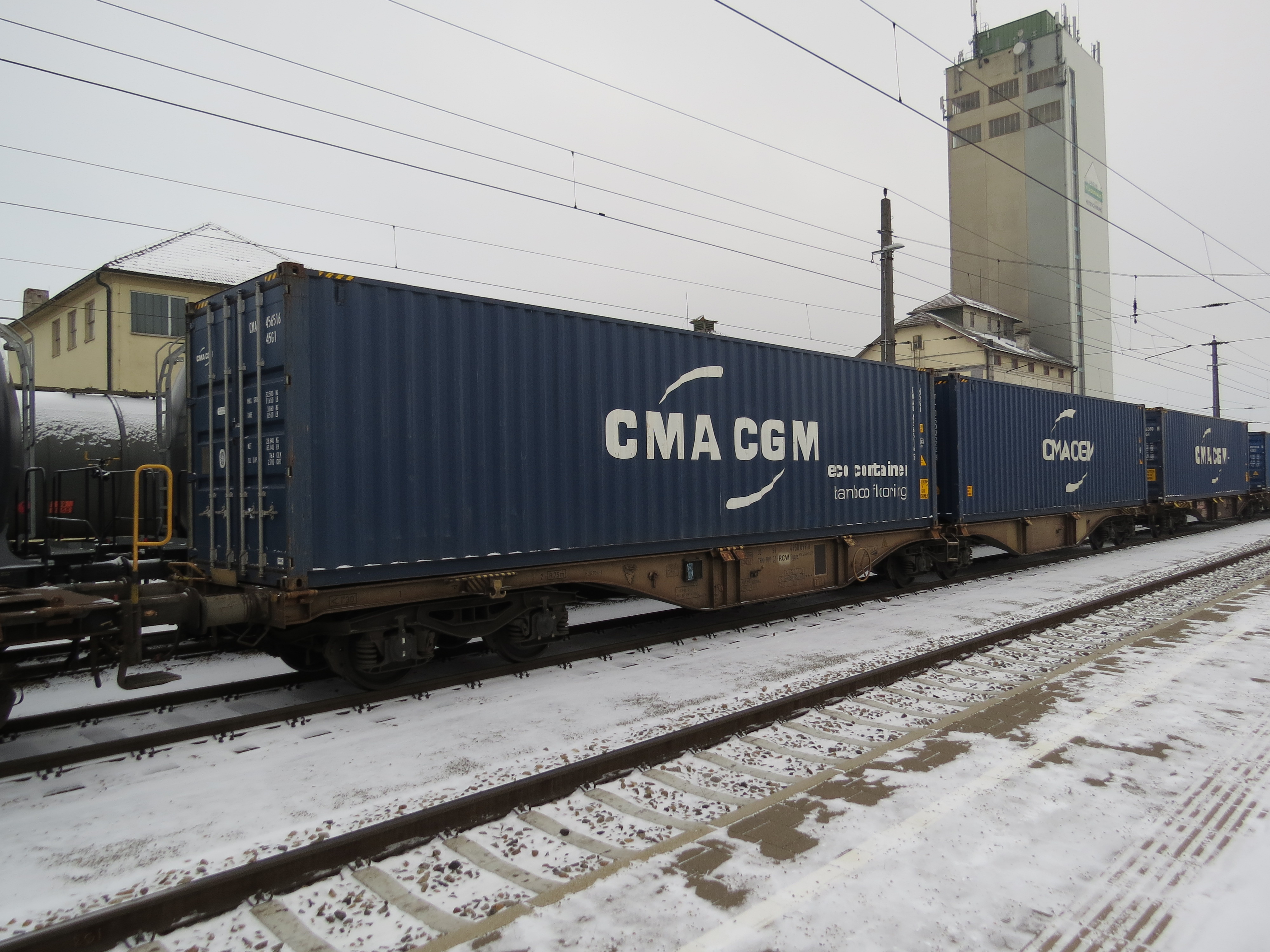 33 54 4950 099 at Bahnhof Herzogenburg, Austria